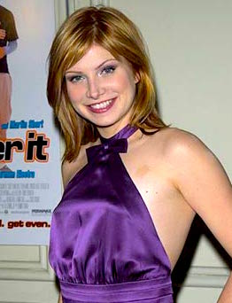 Crop of photo of Vitamin C